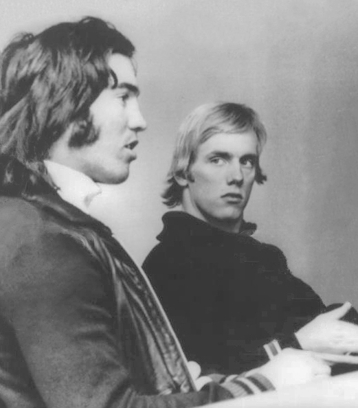 1976 Press Photo United States men's Alpine ski team before press at Olympics (l-r: Andy Mill, Geoff Bruce, Harold Schonhaar, Karl Anderson)